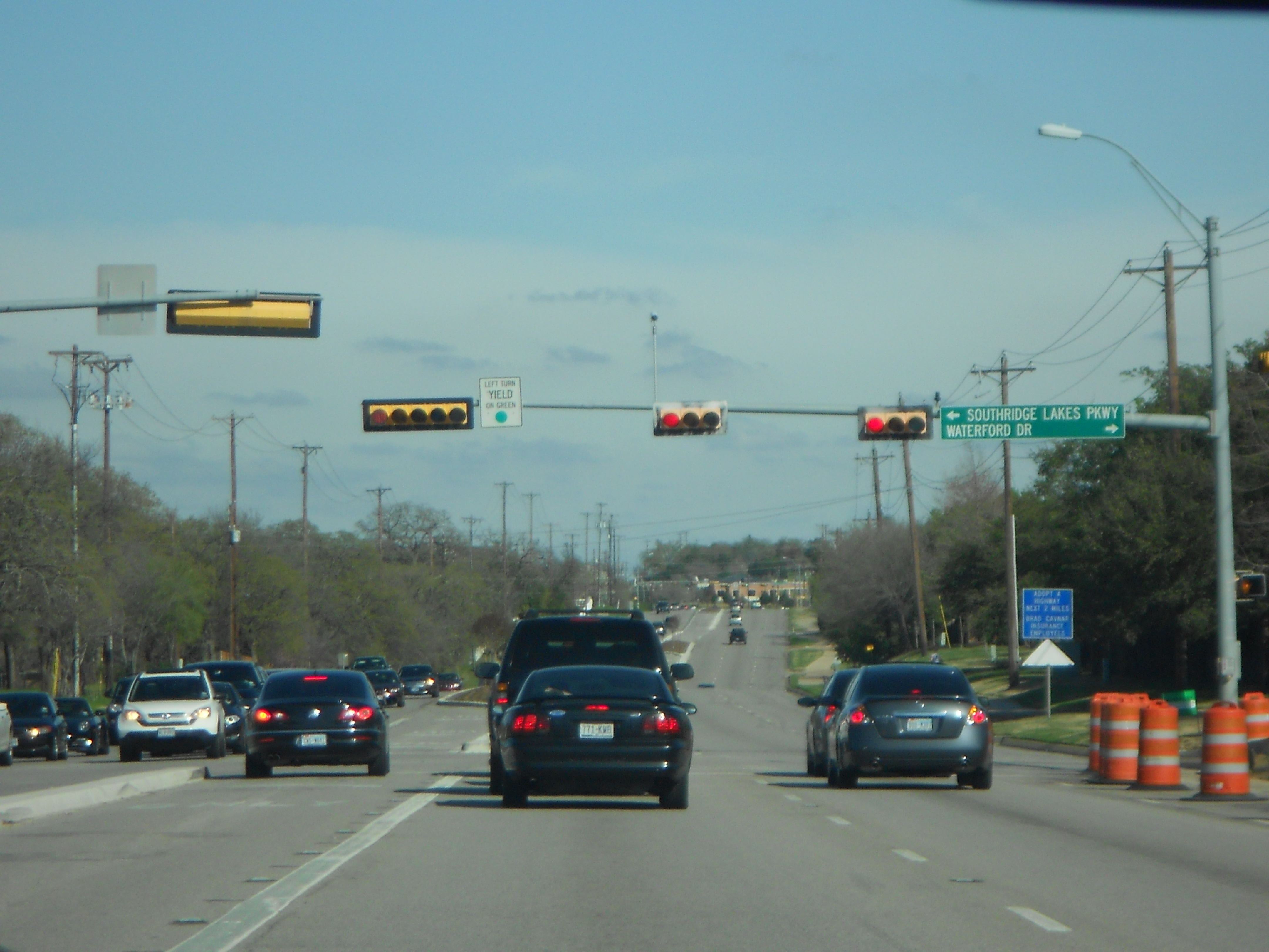 Looking east on Farm to Market Road 1709 with an intersection in the foreground.